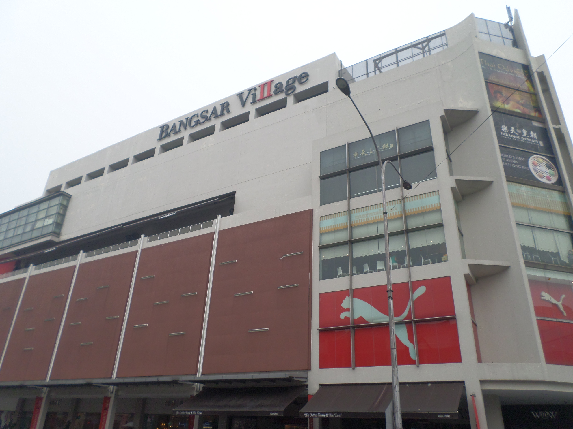 Bangsar Village, Bangsar, Kuala Lumpur, Malaysia